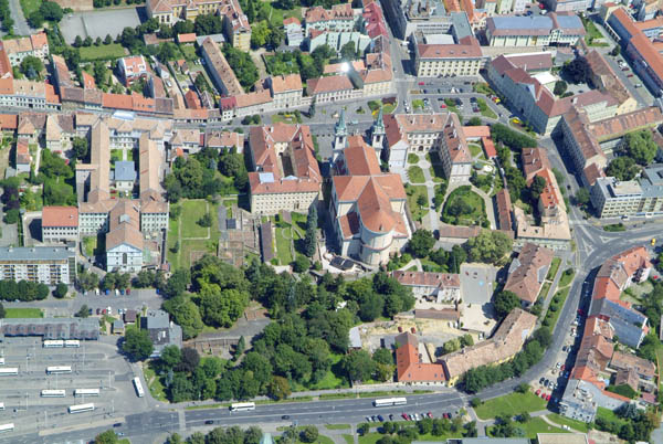 Szombathely (Savaria), Vas county, Hungary, aerial photography